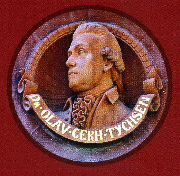 Rostock: University: Relief portrait of the orientalist Oluf Gerhard Tychsen at the main building of the University in Rostock.